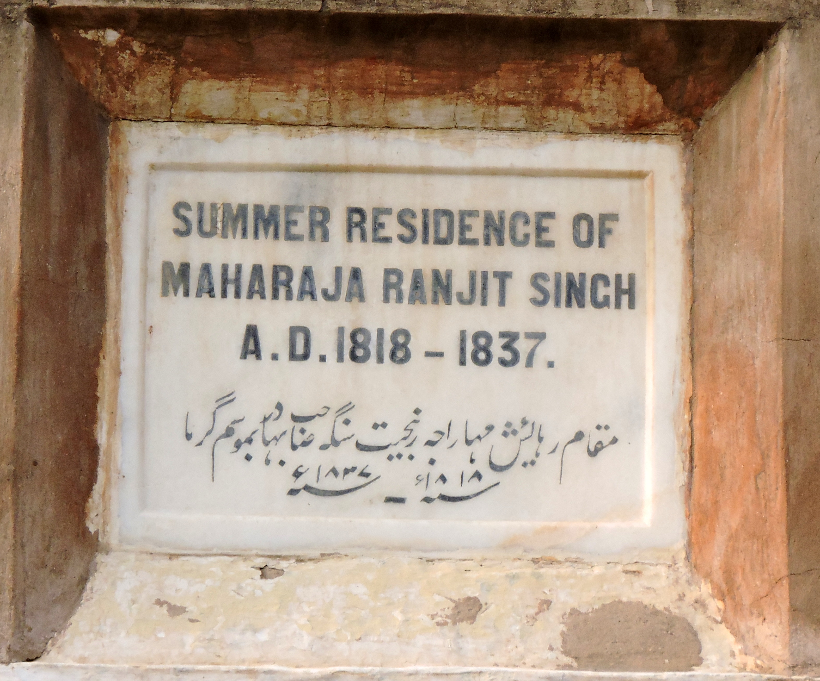 Description written during British Period about summer palace of Maharaja Ranjit Singh,Amritsar,Punjab,India